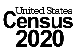 Logo for the 2020 United States Census, modified from jpeg to png